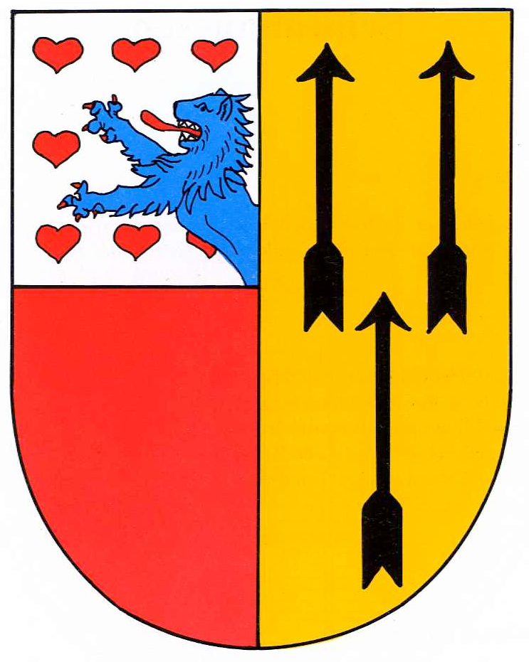 Coat of Arms of Uetze, Part of Uetze